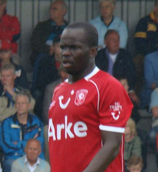 Image of the FC Twente-player Cheik Tiote